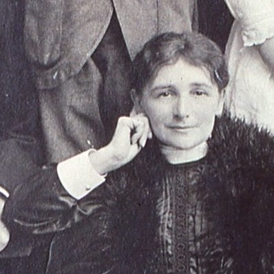 Bertha Mason (seated) surrounded by members of her family